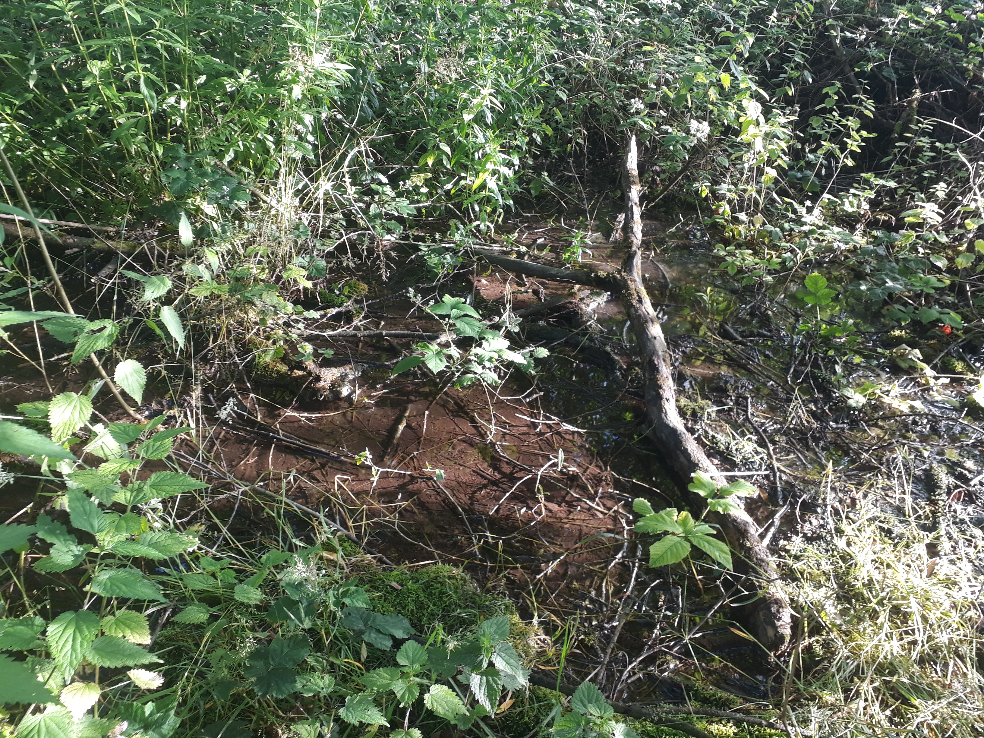 Rida Vottem zone de sources